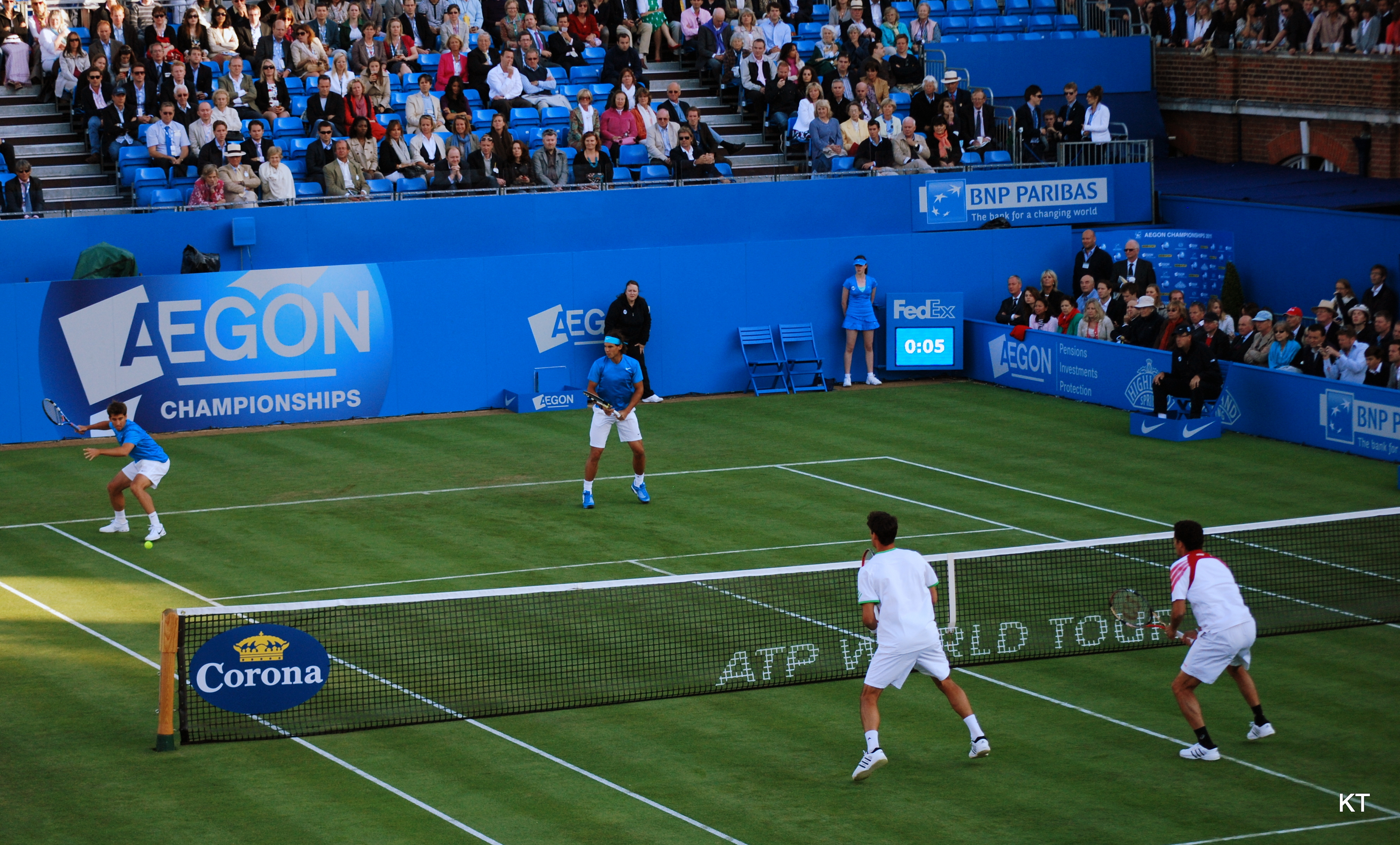 Marc López and Rafael Nadal versus André Sá and Thomaz Bellucci at 2011 AEGON Championships.